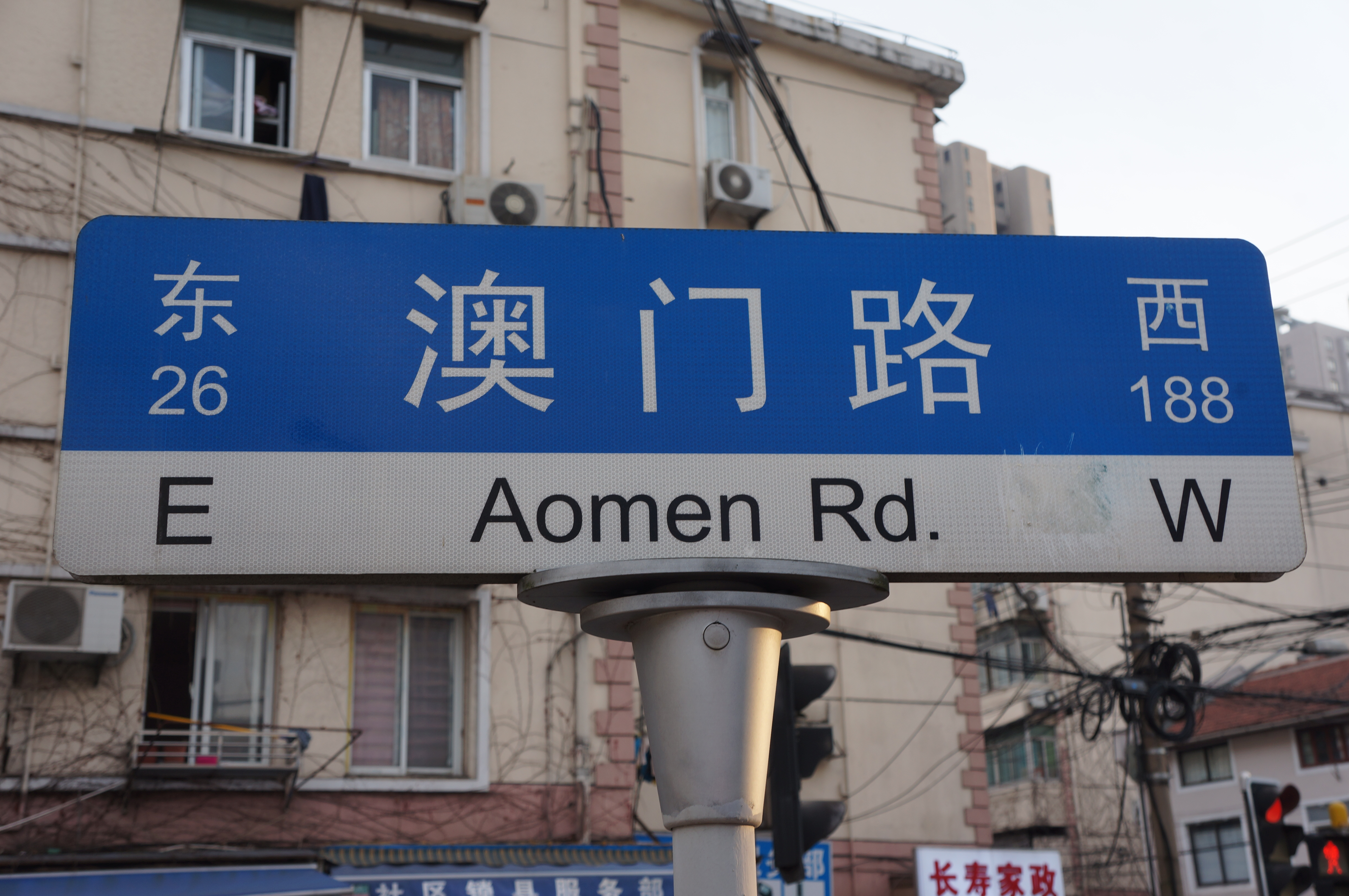 201703 Aomen Road Sign